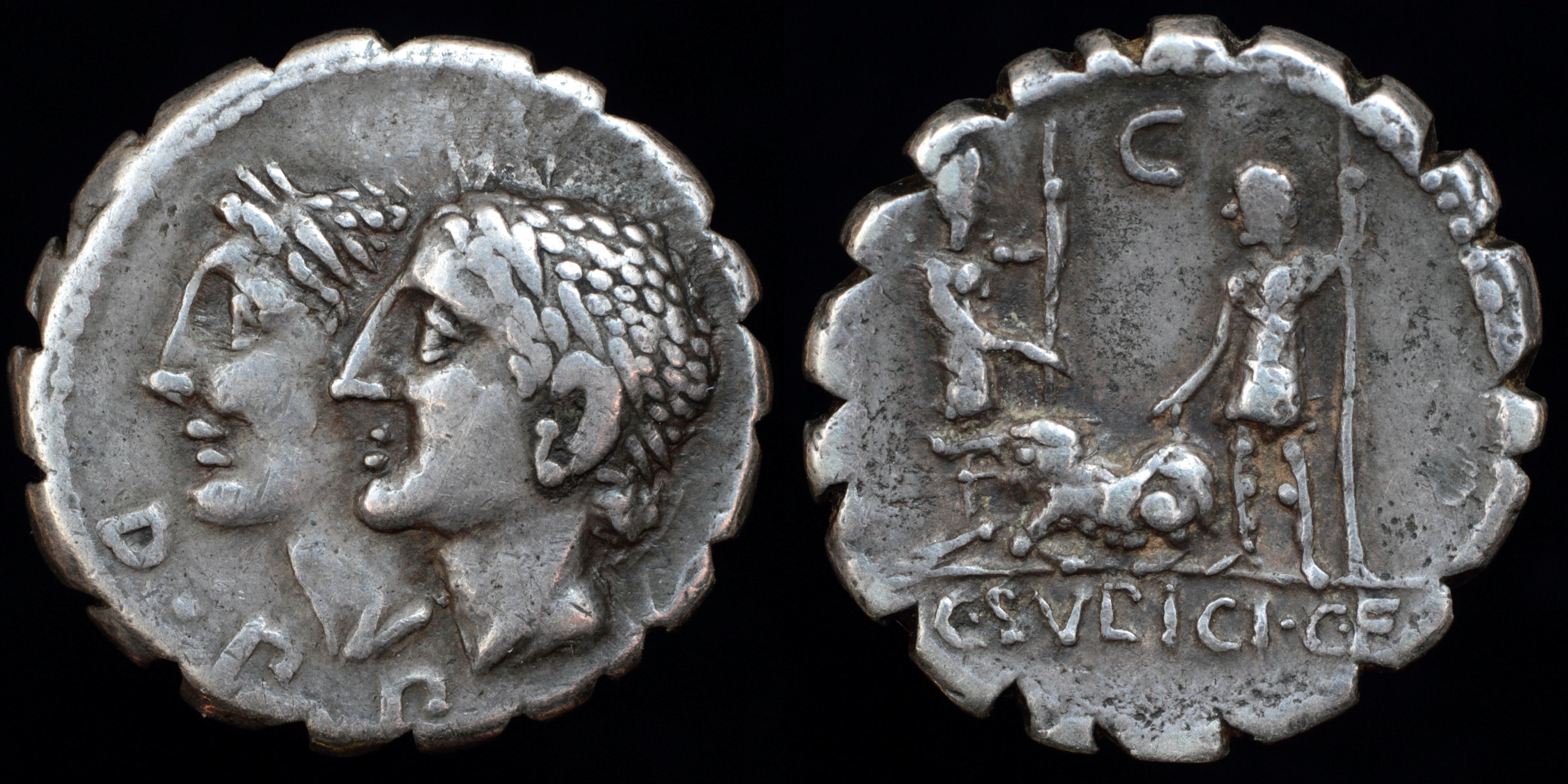 struck in Rome 106 BC obverse: 2 jugate heads of Dii Penates left D · P · P reverse: Two soldiers standing facing each other, holding spears and pointing at sow which lies between them (depicts scene from Aeneid where sow identifies the place to found new city (book 8) ) C exergue: C·SV(LP)ICI·C·F references: Sulpicia 1. Sydenham 572. Crawford 312/1 weight: 3,96g